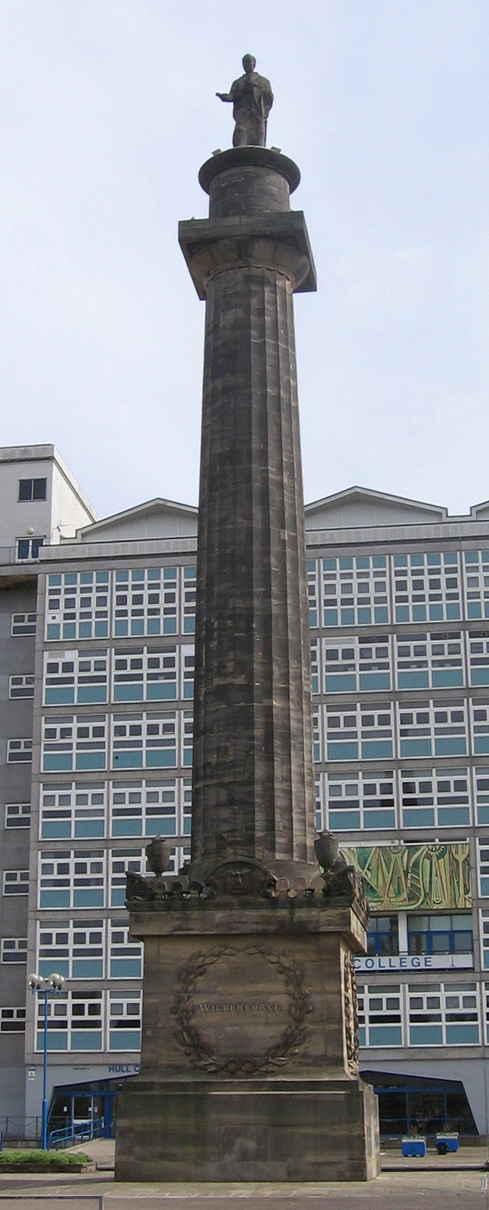 Wilberforce statue, Queen's Gardens, Kingston upon Hull, England